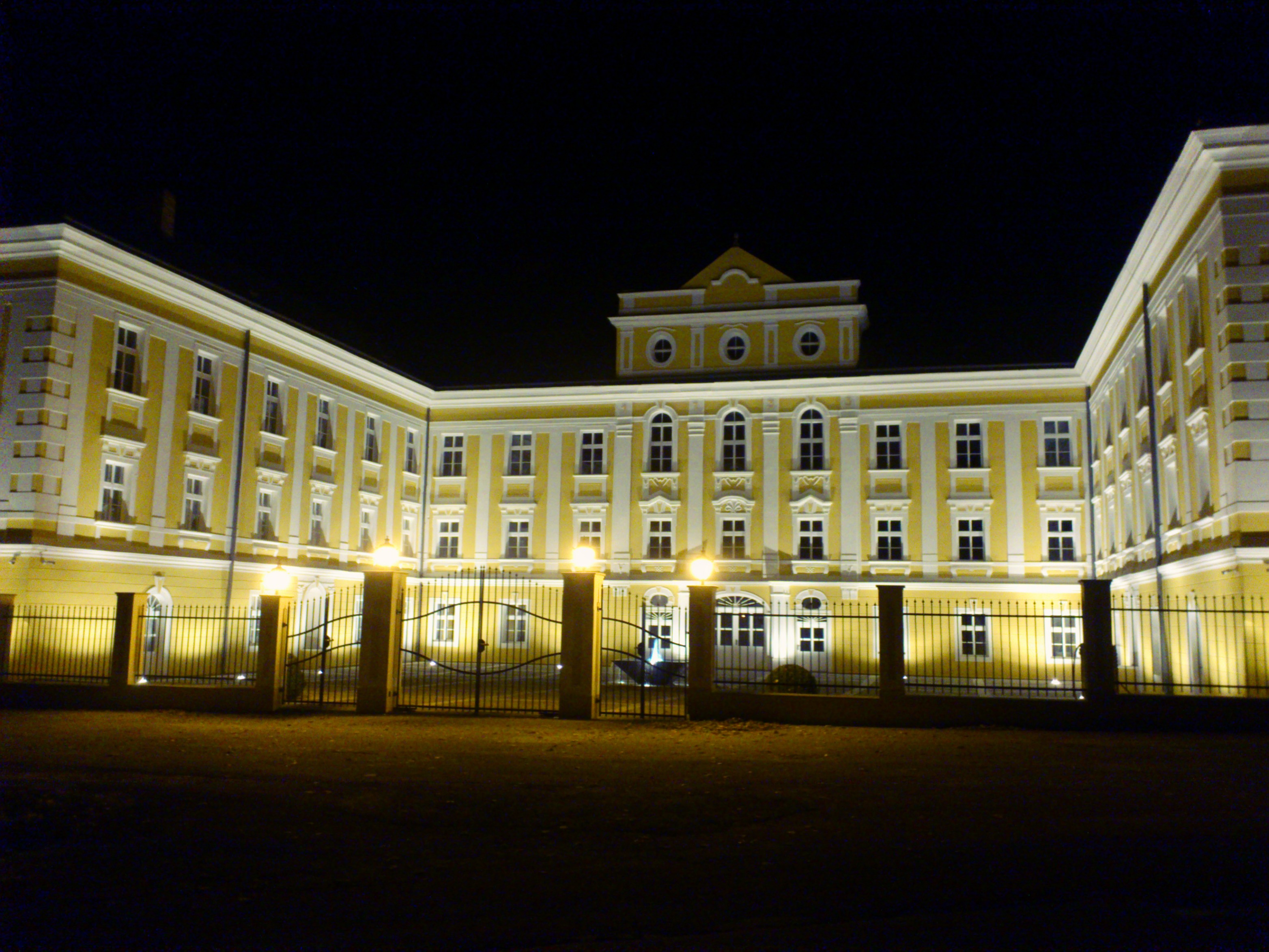 Castle Staré Hobzí was built in the year 1733. It's very interesting and monumental baroque building. Now, in 2015 is the castle after restoration.